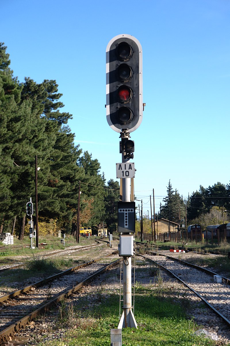 GREECE: A railway color light signal at Leianokladi Station, on the Tithorea-Domokos line.